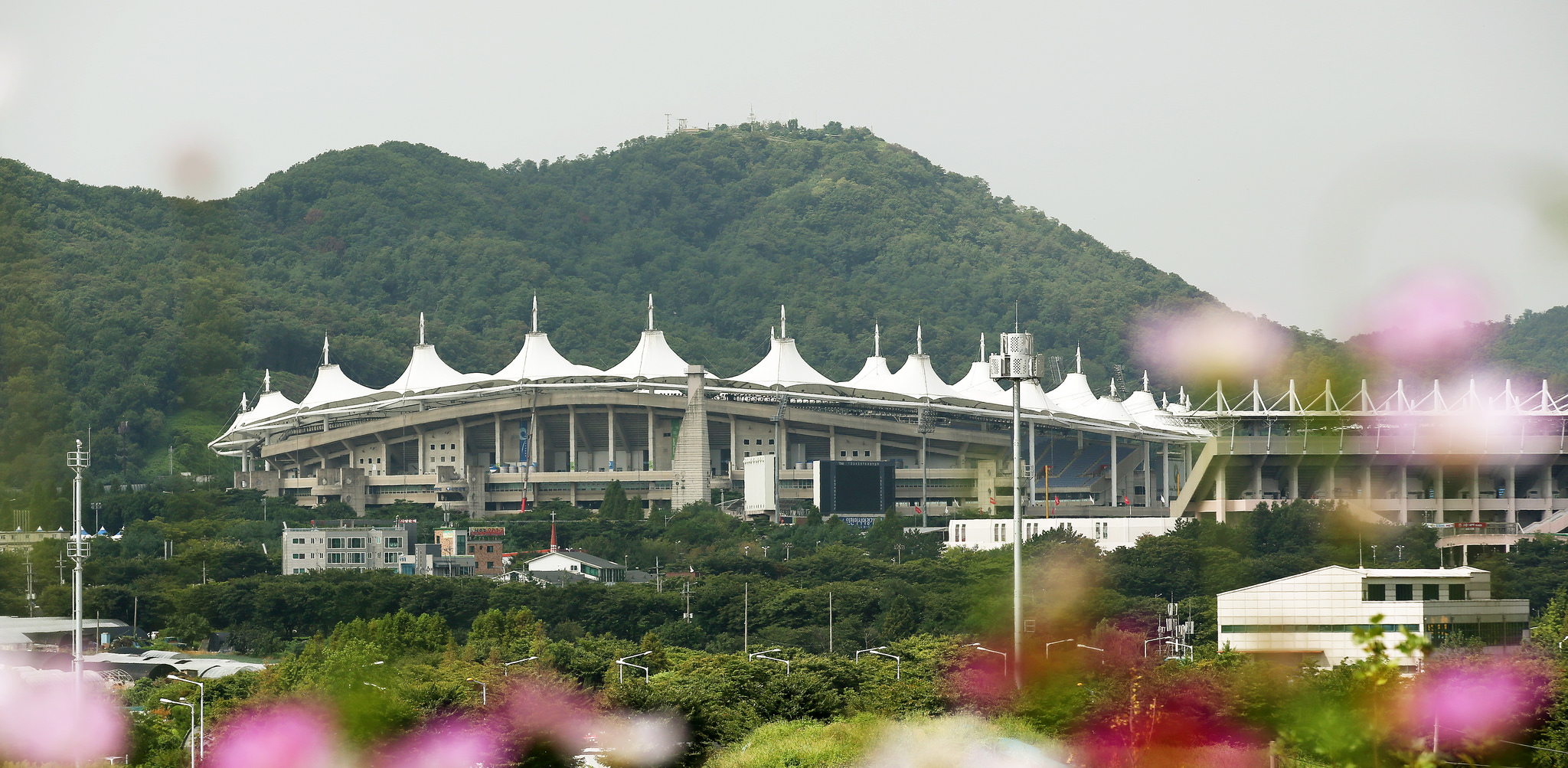 Incheon Munhak Stadium